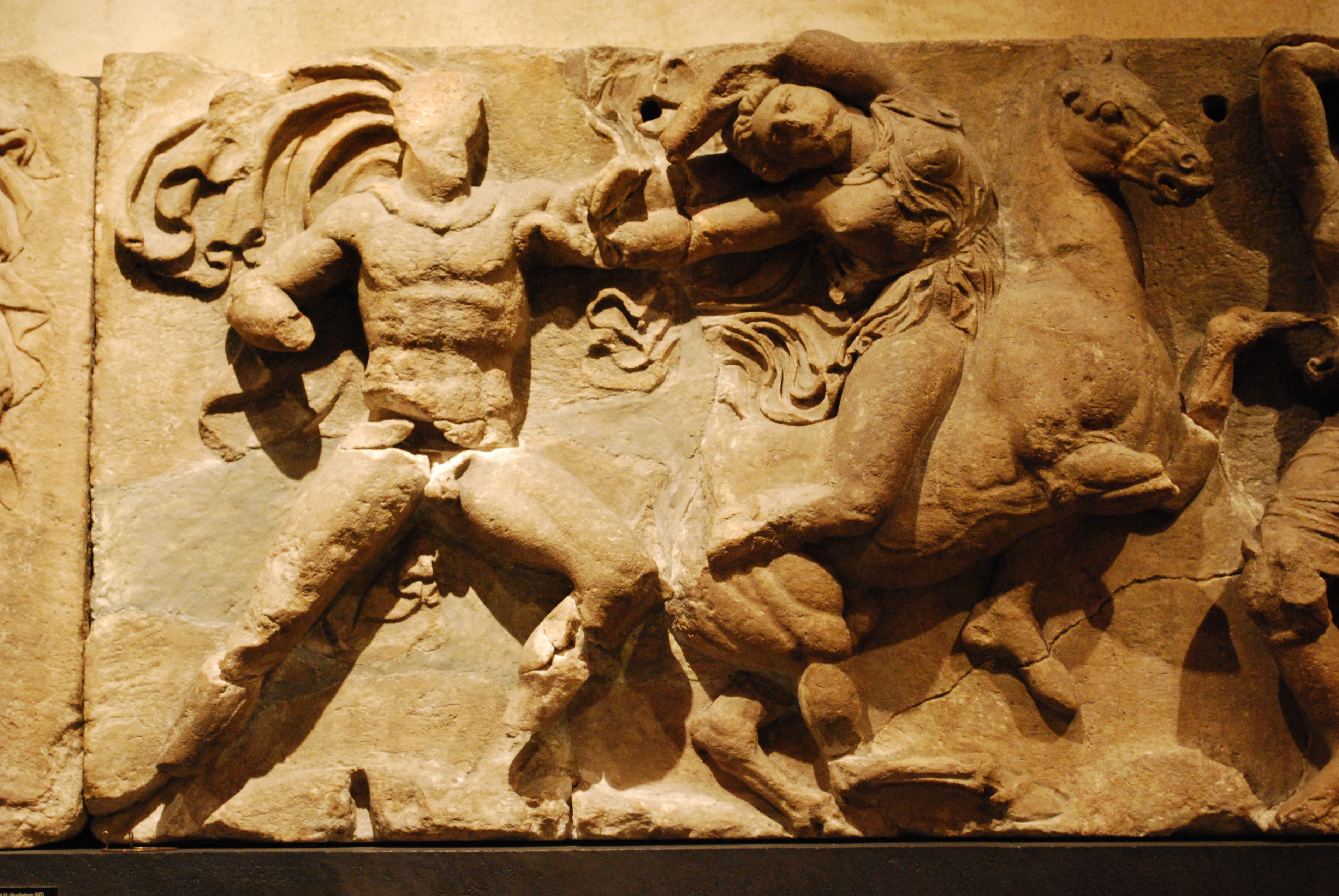 The Bassae Frieze is made from a set of 23 marble panels that were in the Temple of Apollo at Bassae. They were carved just before 400 B.C. The stones are on permanent display in a specially constructed room in Gallery 16 in the British Museum in London. Copies of this frieze decorated the walls of the Ashmolean Museum and London's Travellers Club. (Note the source numbers below show the order of the pictures)